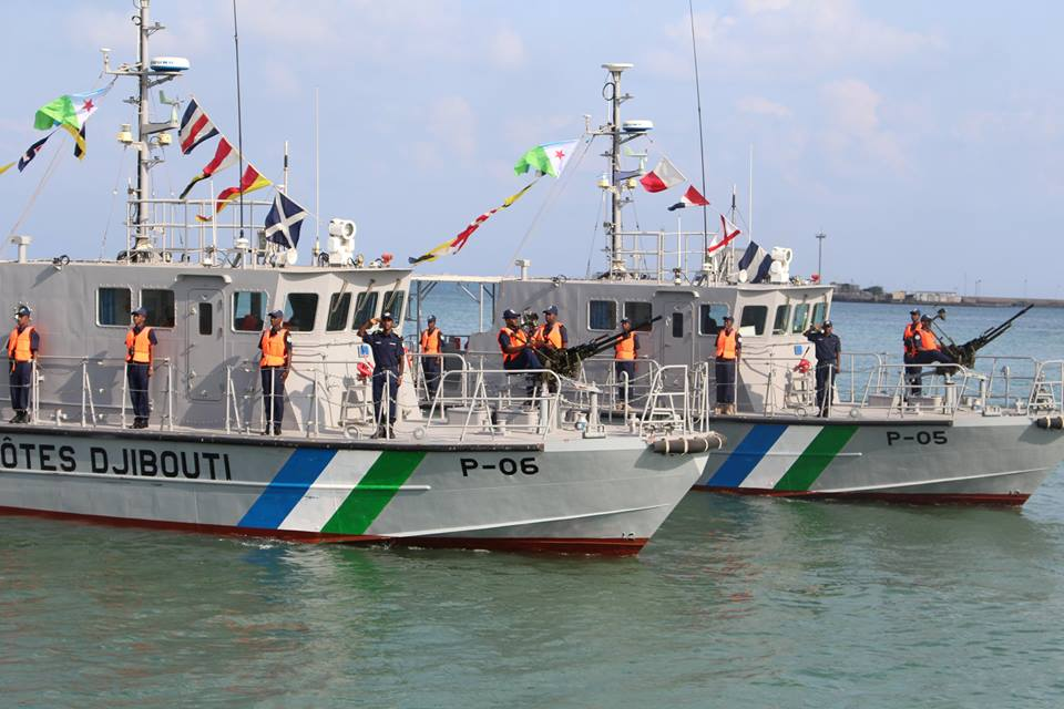 Djiboutian Navy (Garde-Cotes) vessels gathered at the port in Djibouti City for a celebration.